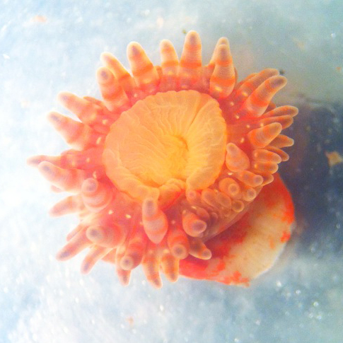 Cropped and centered version of MarinFaunistik's original file.